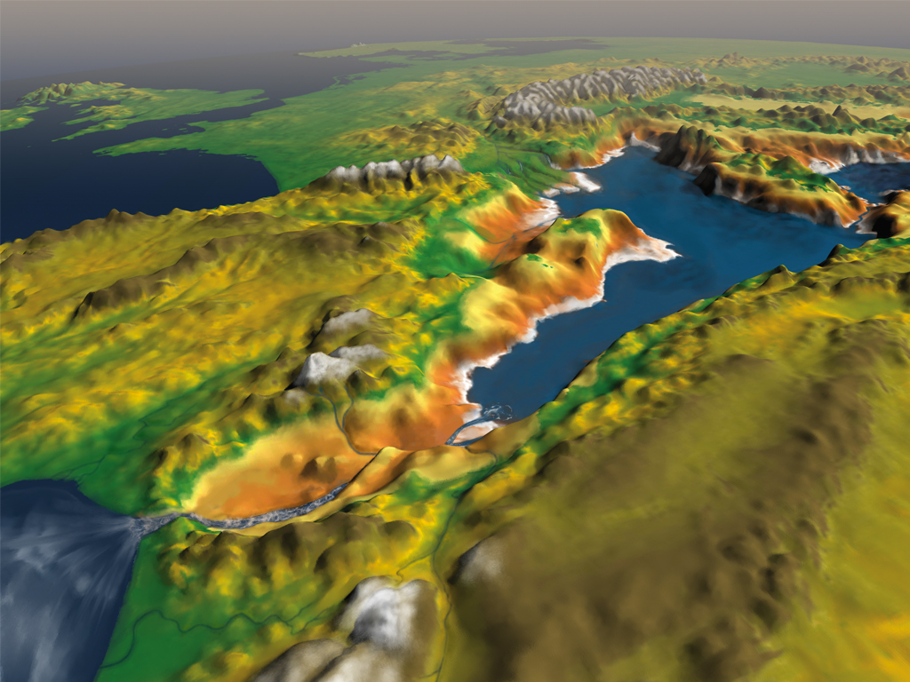 Illustration of the presumed flood of the Mediterranean after its desiccation during the Messinian salinity crisis. If confirmed, this would be the largest documented flood in the geological record. The view in this image is from the southwest, with the future British Isles in the upper left-hand corner.